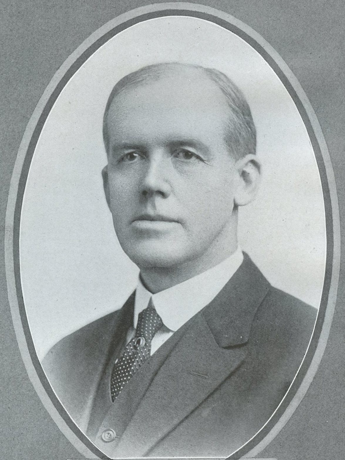 Missouri State Superintendent of Schools. 1916-18. From the Missouri Official Manual 1917